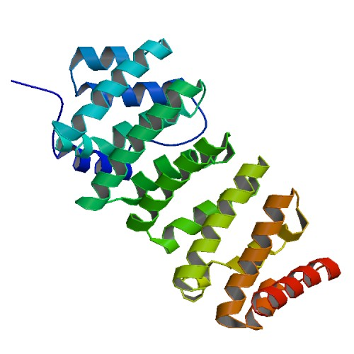 Crystal structure of a TOG domain: conserved features of XMAP215/Dis1-family TOG domains and implications for tubulin binding. Al-Bassam, J., Larsen, N.A., Hyman, A.A., Harrison, S.C. Journal: (2007) Structure 15: 355-362 PubMed: 17355870